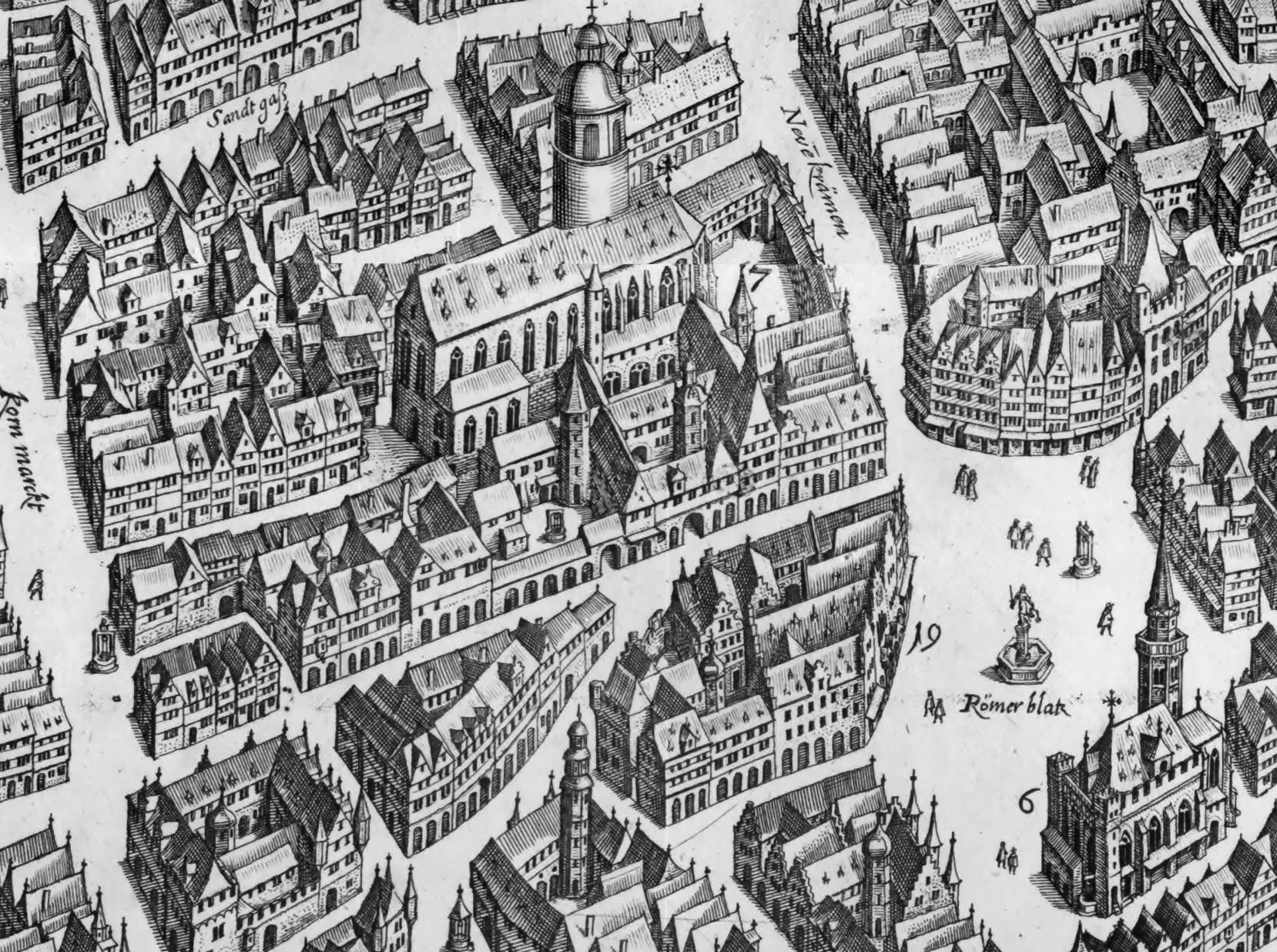 Frankfurt am Main: Detail of Merian´s Plan of ca. 1770 showing church and monastery of the Franciscans (Barfüßer)